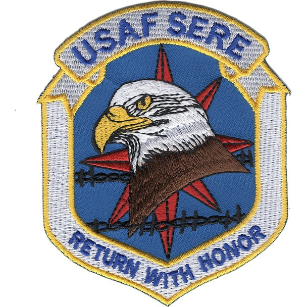 Specialty patch worn by USAF "Survival Instructors" with unit motto.